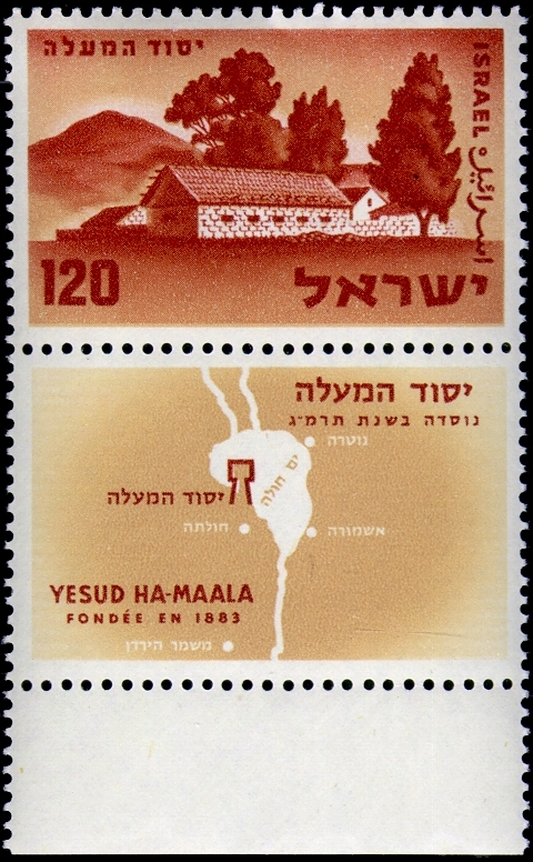 Israeli postage stamp issued toward 50th anniversary of moshava Yesud HaMa'ala - 120 mil